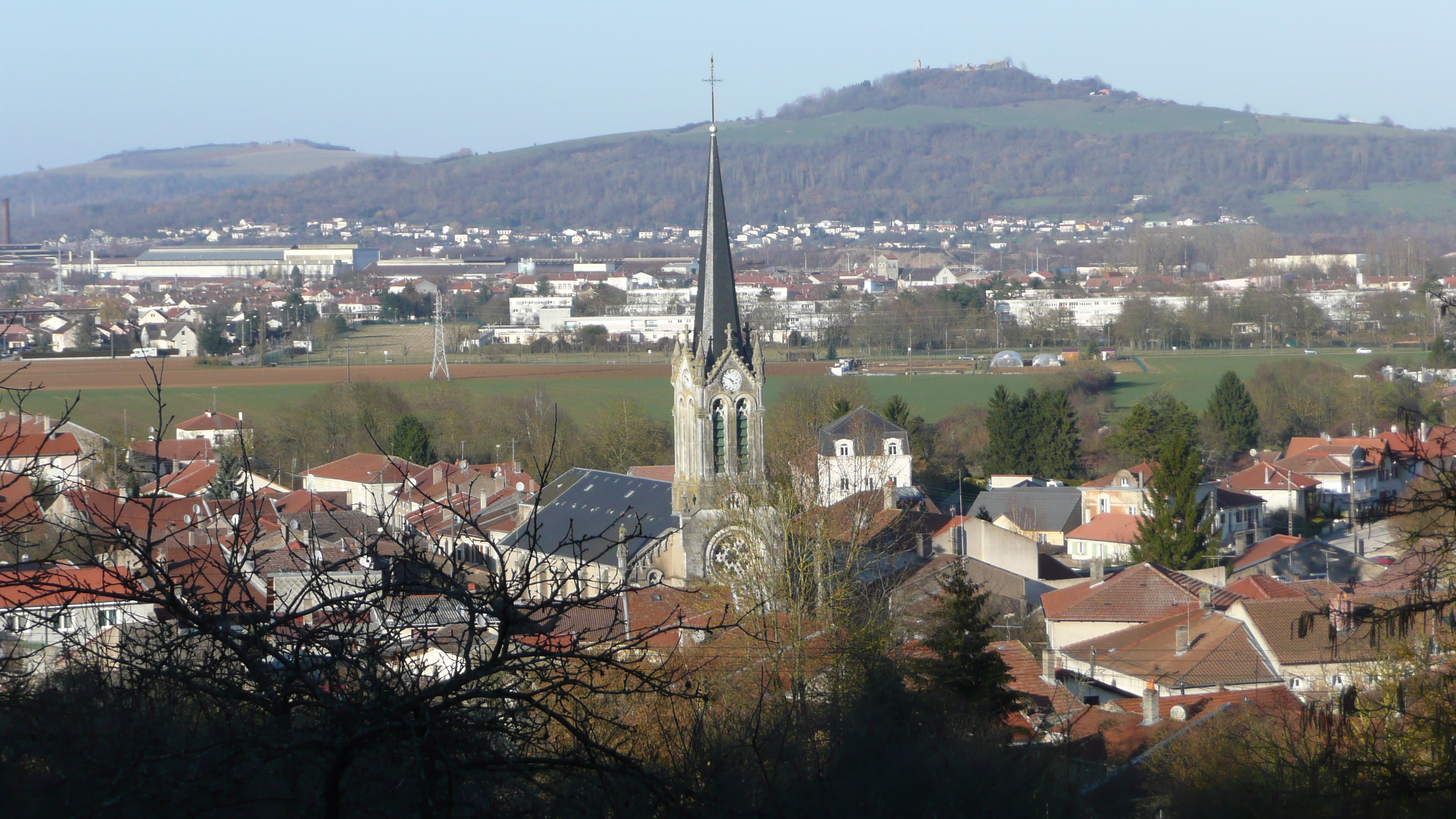 Overview of Jézainville. Basically, the hill of Mousson.